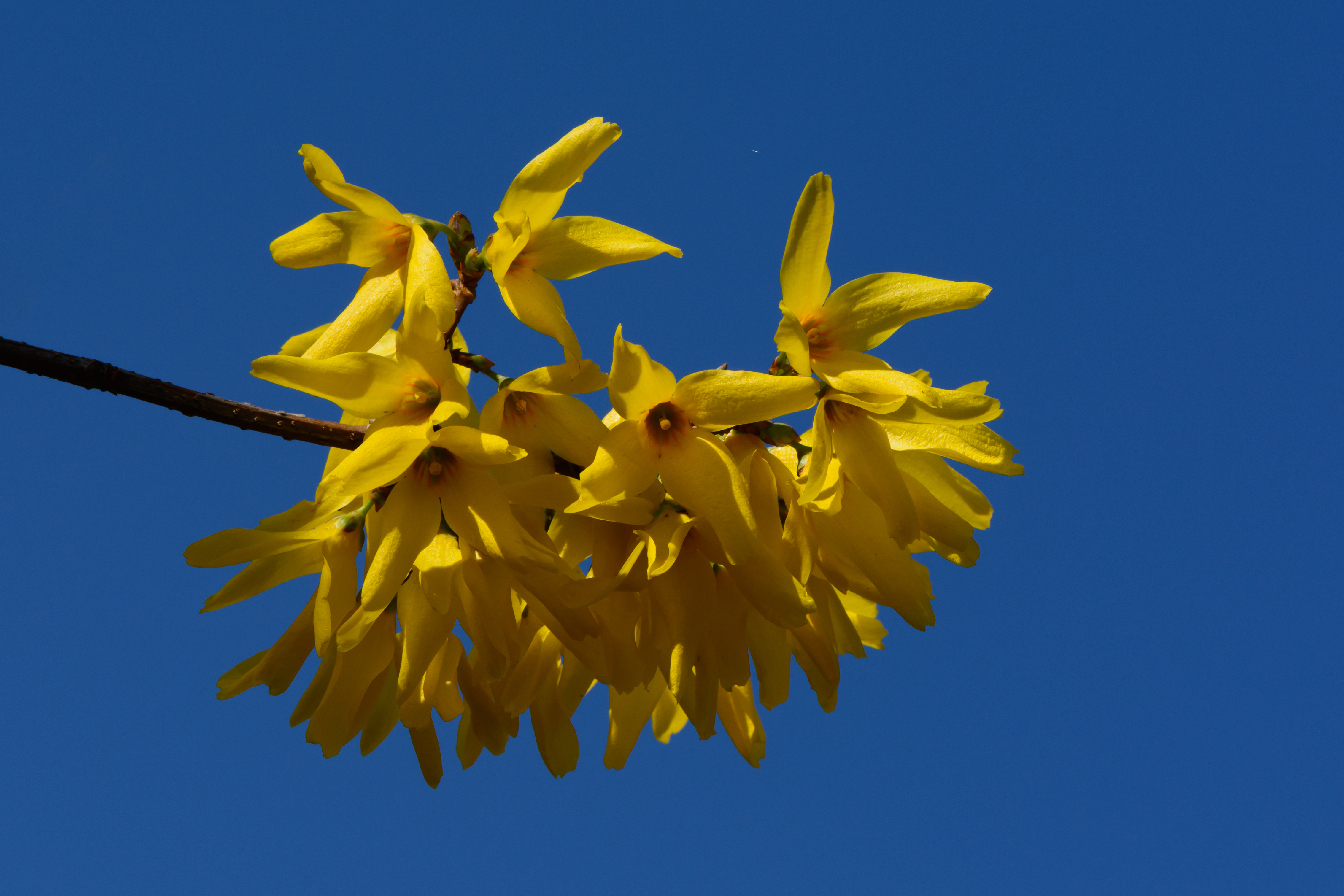 Forsythia (Forsythia x intermedia)